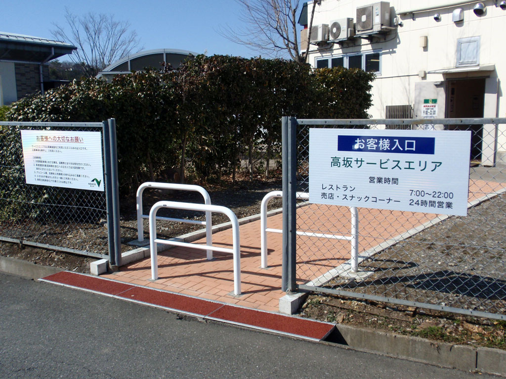 Takasaka Service-area entrance. (Oaza-tagi 981-3, Higashimatsuyama-city, Saitama-pref, Japan)